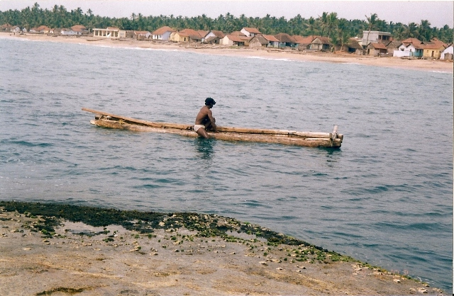 Fishing at Kodimunai village, Kanyakumari district, TamilNadu, India